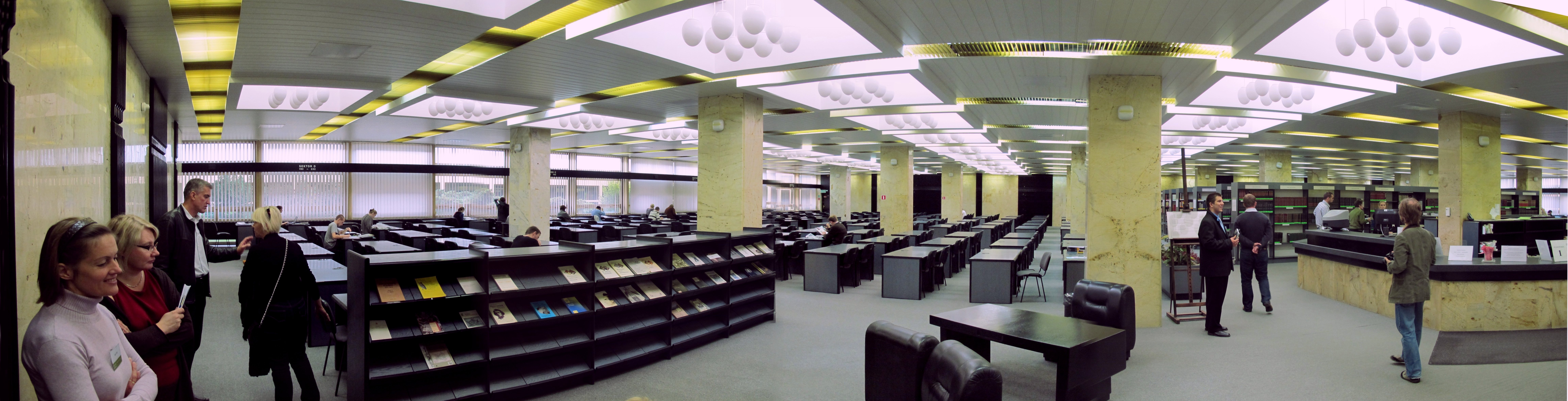 Main reading room at the Polish National Library in Warsaw.